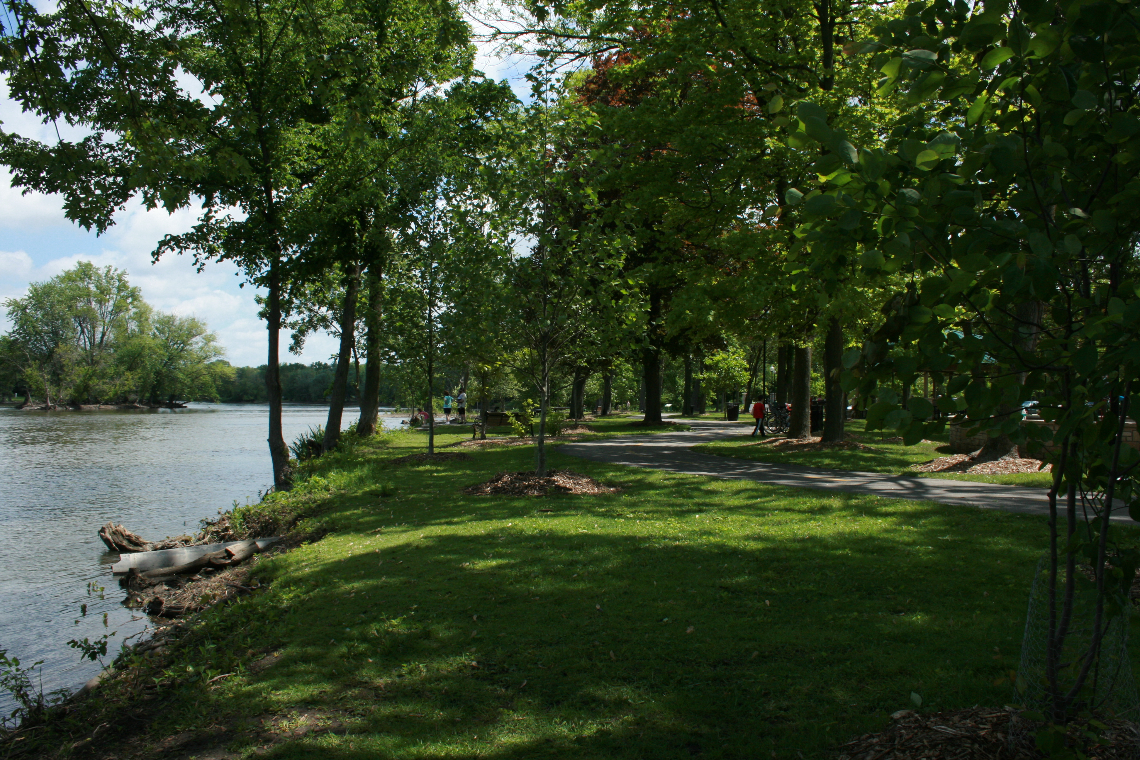 Oswego, Illinois - Hudson Crossing Park